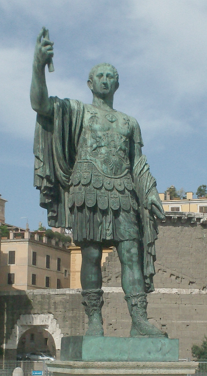 Statue of the Roman Emperor Nerva, Forum Romanum, Rome